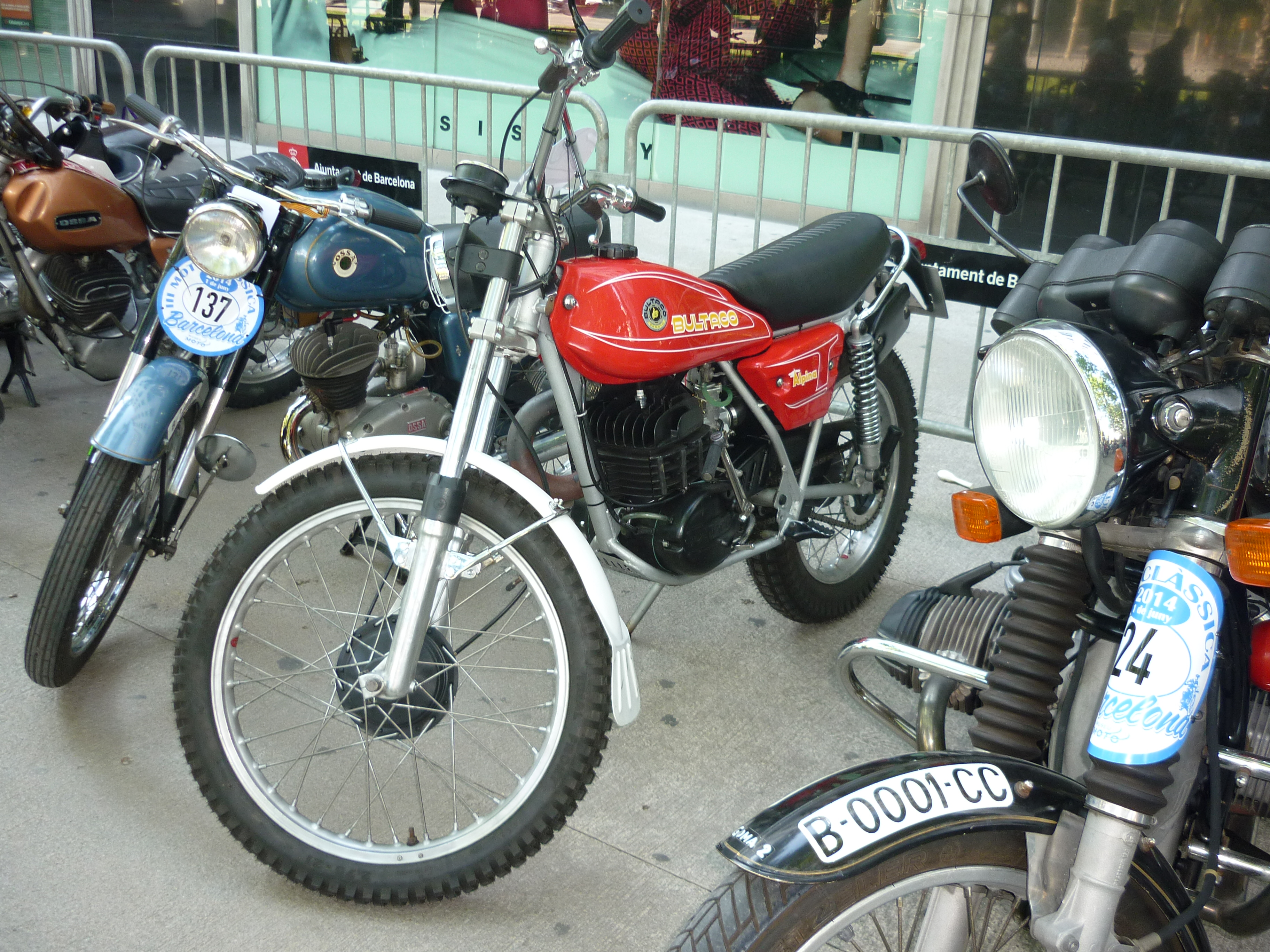 In red: Bultaco Alpina 350cc (1977)